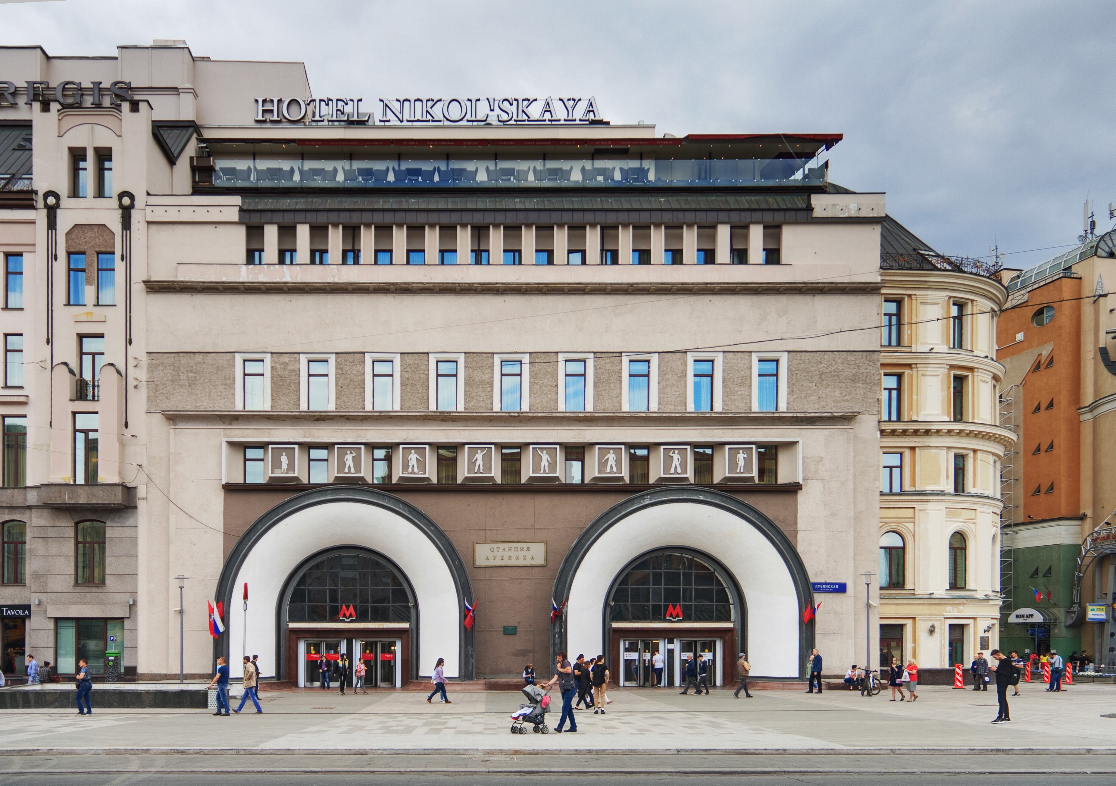 Vestibule of Lubyanka Metro station, Novaya square 2, Moscow, Russia